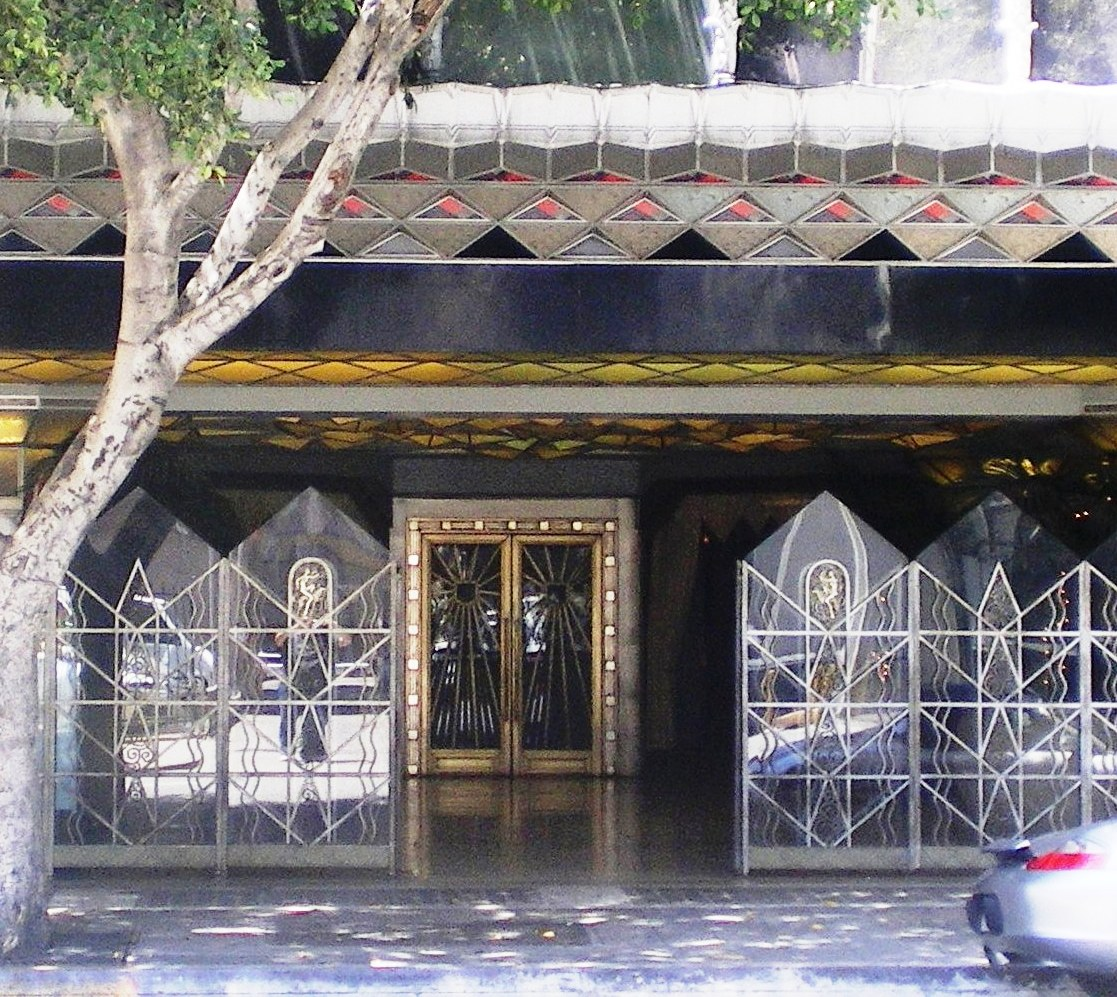 Entrance to Oviatt Building, 617 S. Olive St., Los Angeles, California